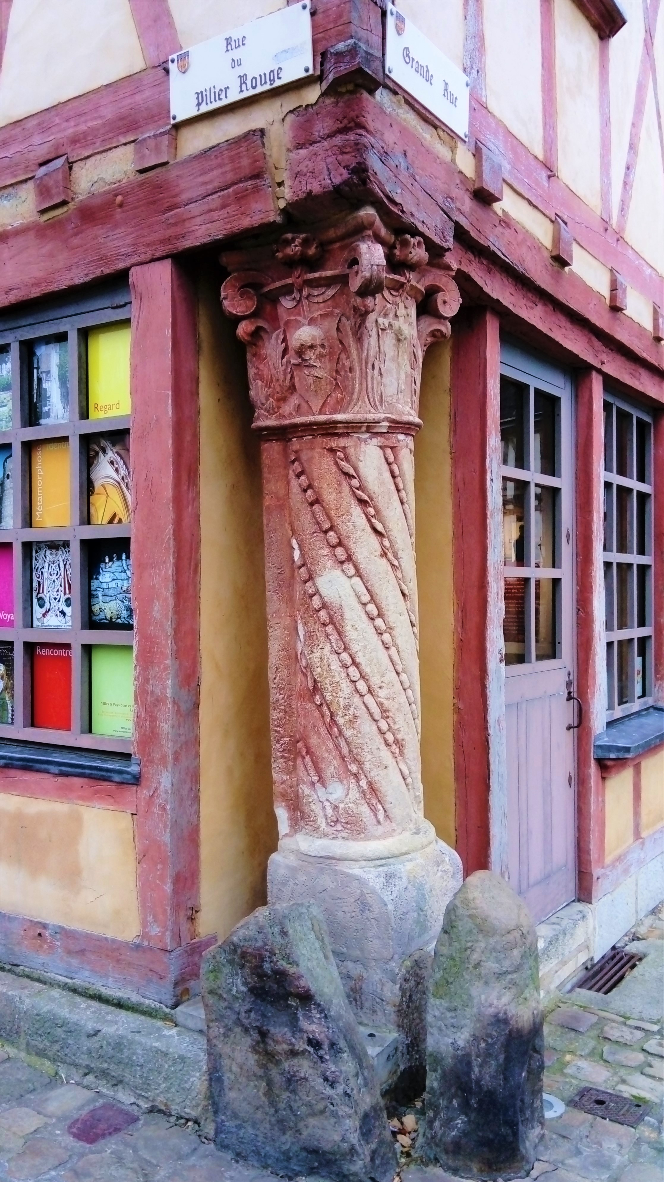 Red Pillar of the House with the Red Pillar in Le Mans (France), built during the 15th century. .